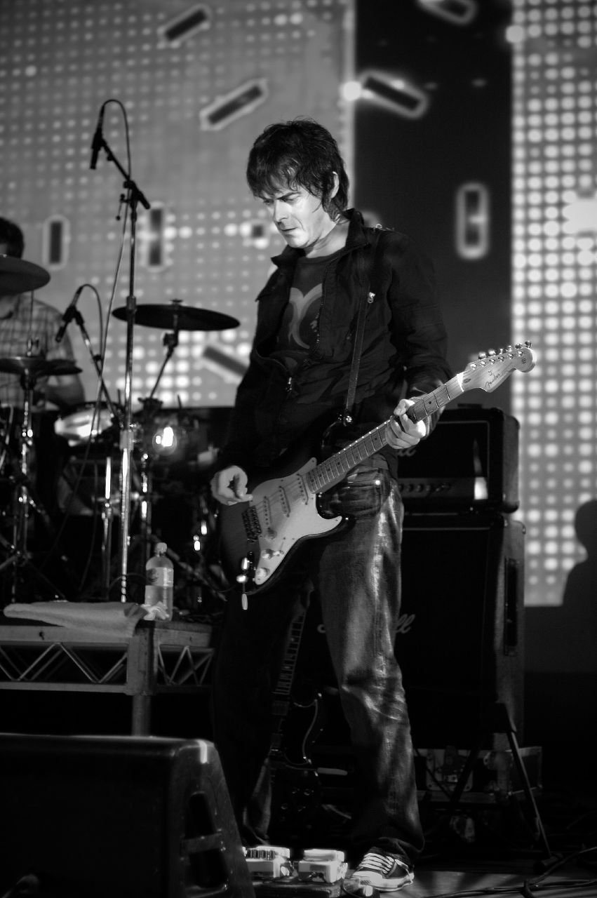 Groove Armada (Tom Findlay)